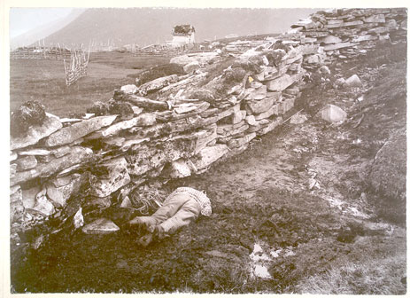 Reconstruction of scene of finding Henrik Hetle 1906.